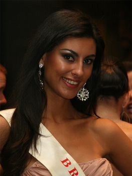 Miss Brazil 07 Regiane Andrade in Miss World 2007, Sanya, China